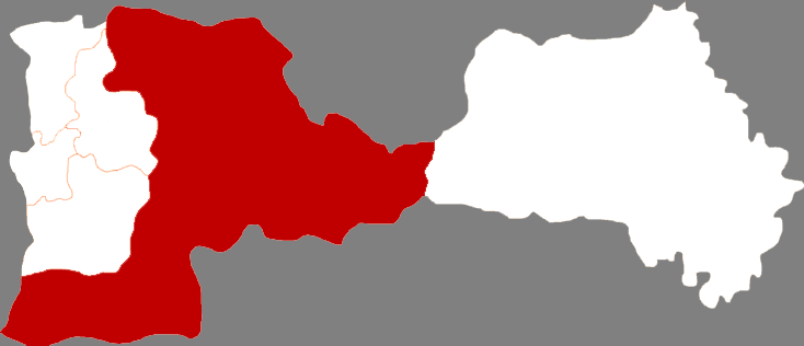 Location of Benxi Manchu Autonomous County in Benxi City, China